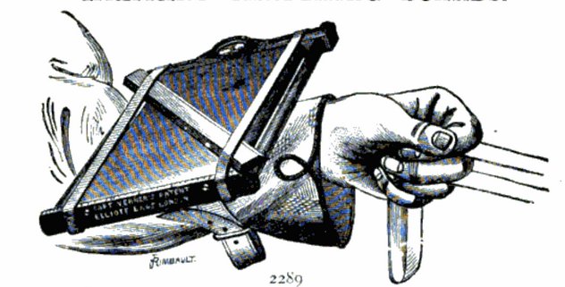 Military Cavalry Sketching board for use on horseback. first used in 1880... improved by Major William Willoughby Cole Verner